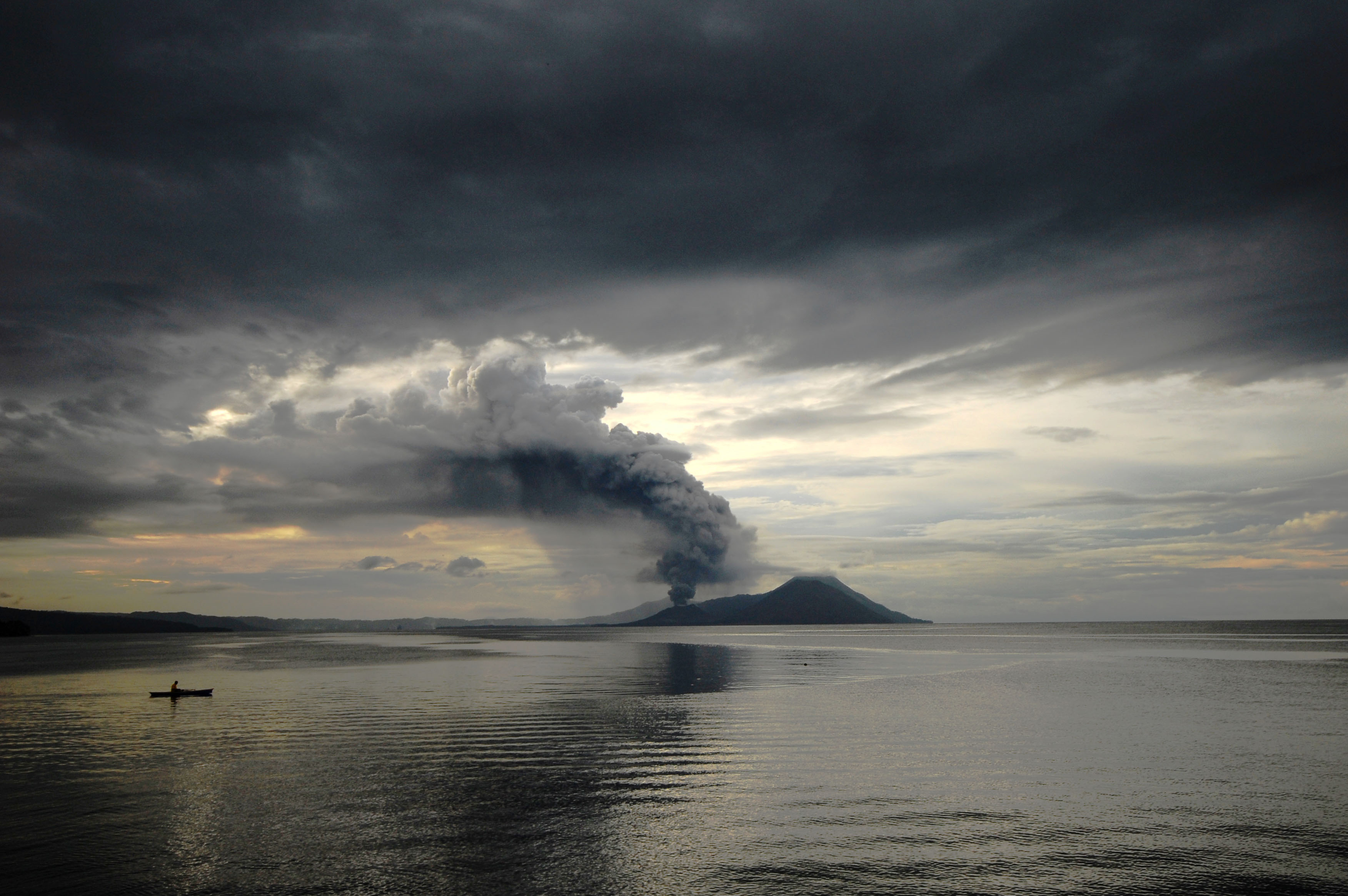 As a fisherman waits patiently for the fish to bite, Tavurvur belches ash and pumice into the twilight.